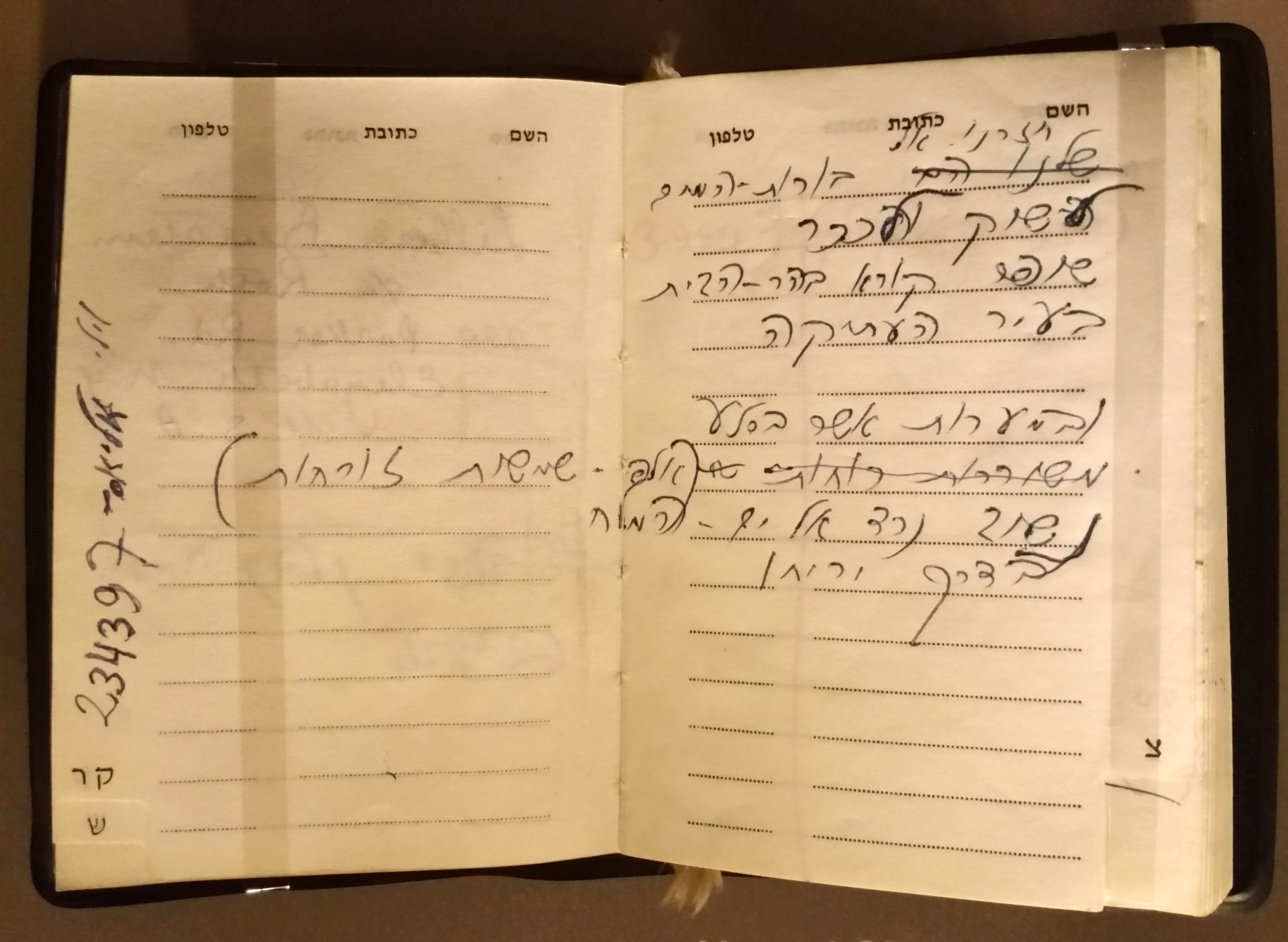 A draft of the song "Jerusalem of Gold" (1967) handwritten in the notebook of poet Naomi Shemer, displayed at the National Library in Jerusalem, Givat Ram